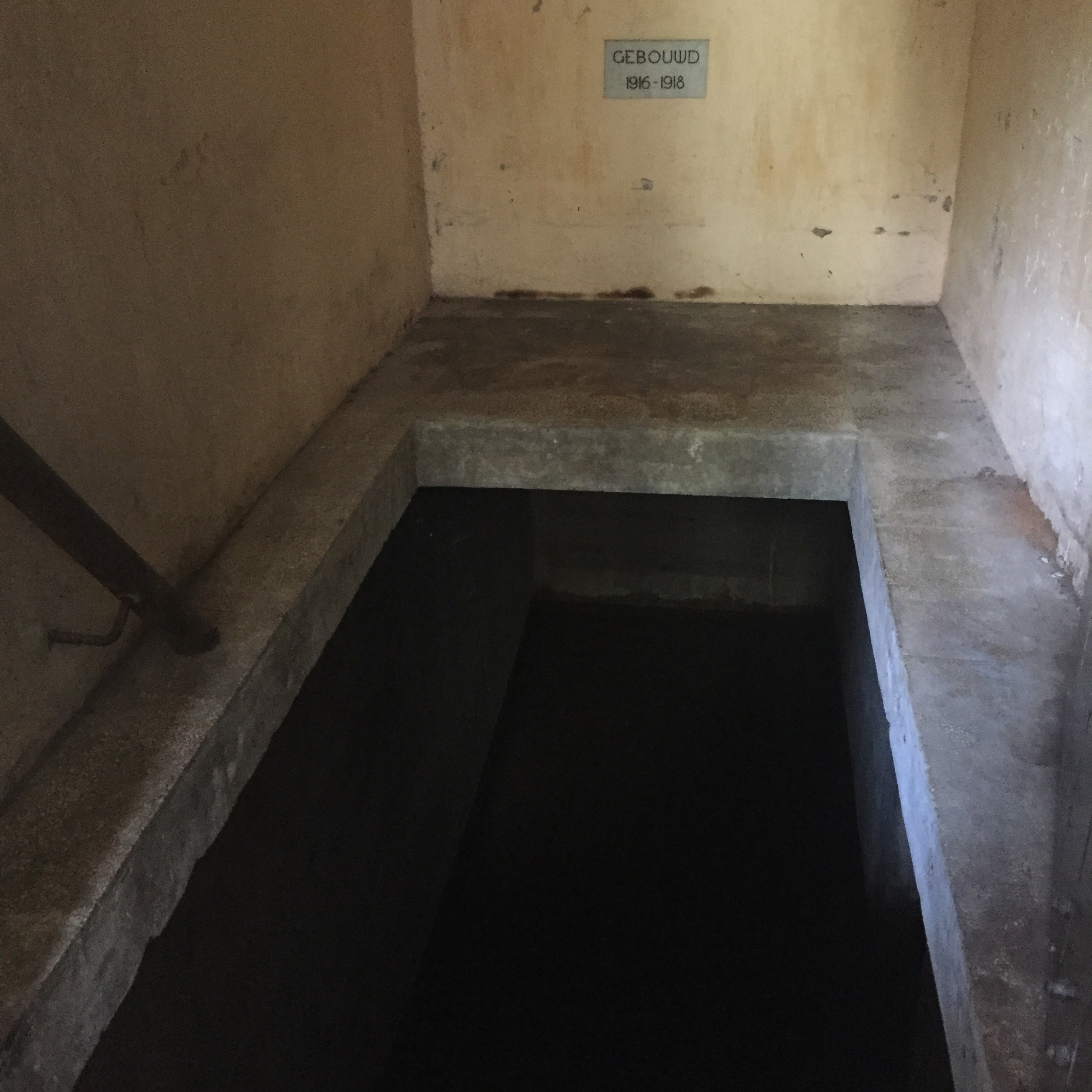 An access to the underground of Lawang Sewu building in Semarang, Central Java, Indonesia